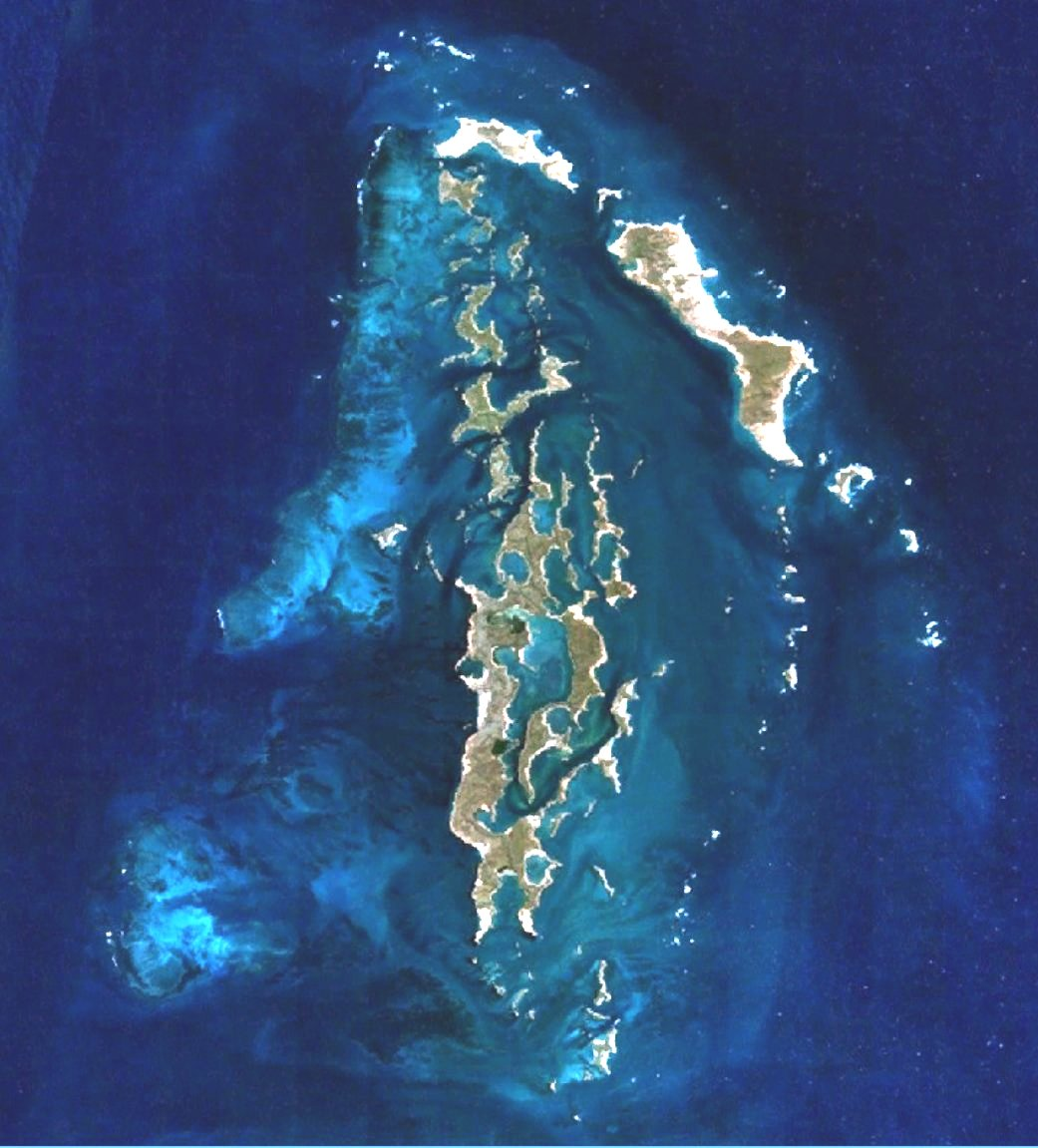 Montebello Islands, off the north west of Western Australia